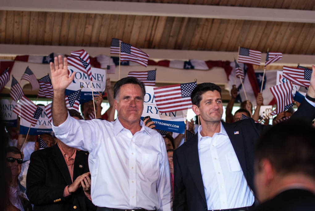 Romney & Ryan Rally in Manassas, VA. August 12, 2012.